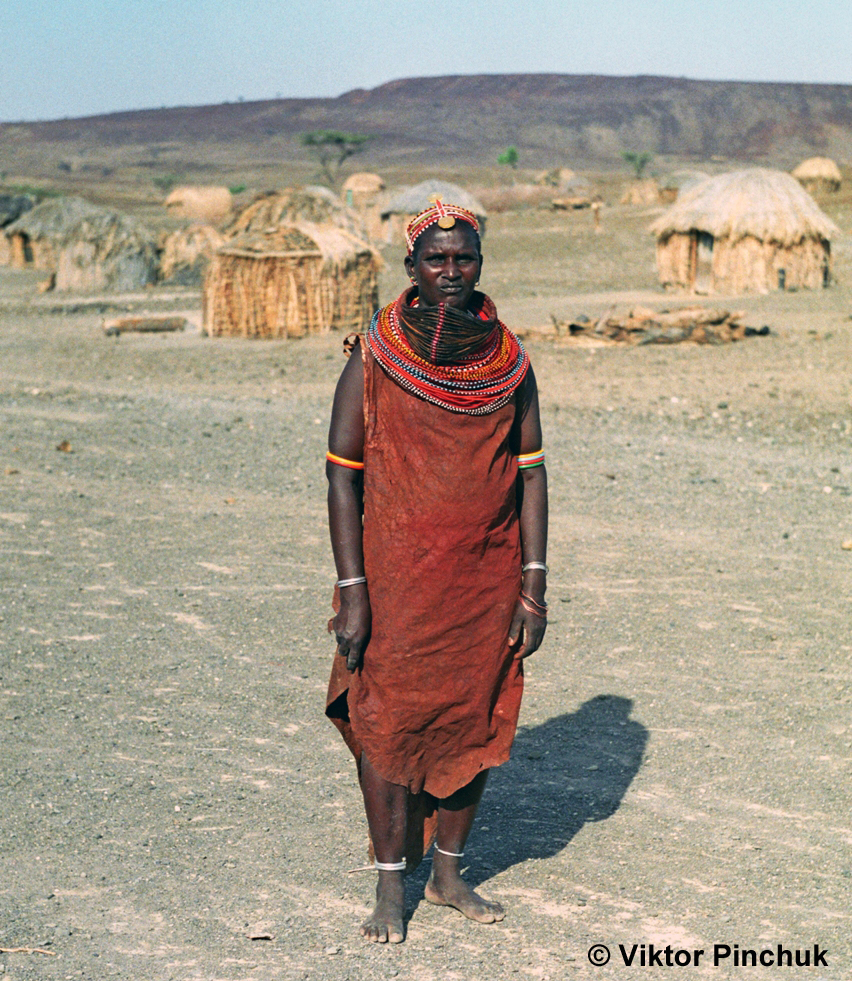 Kenya